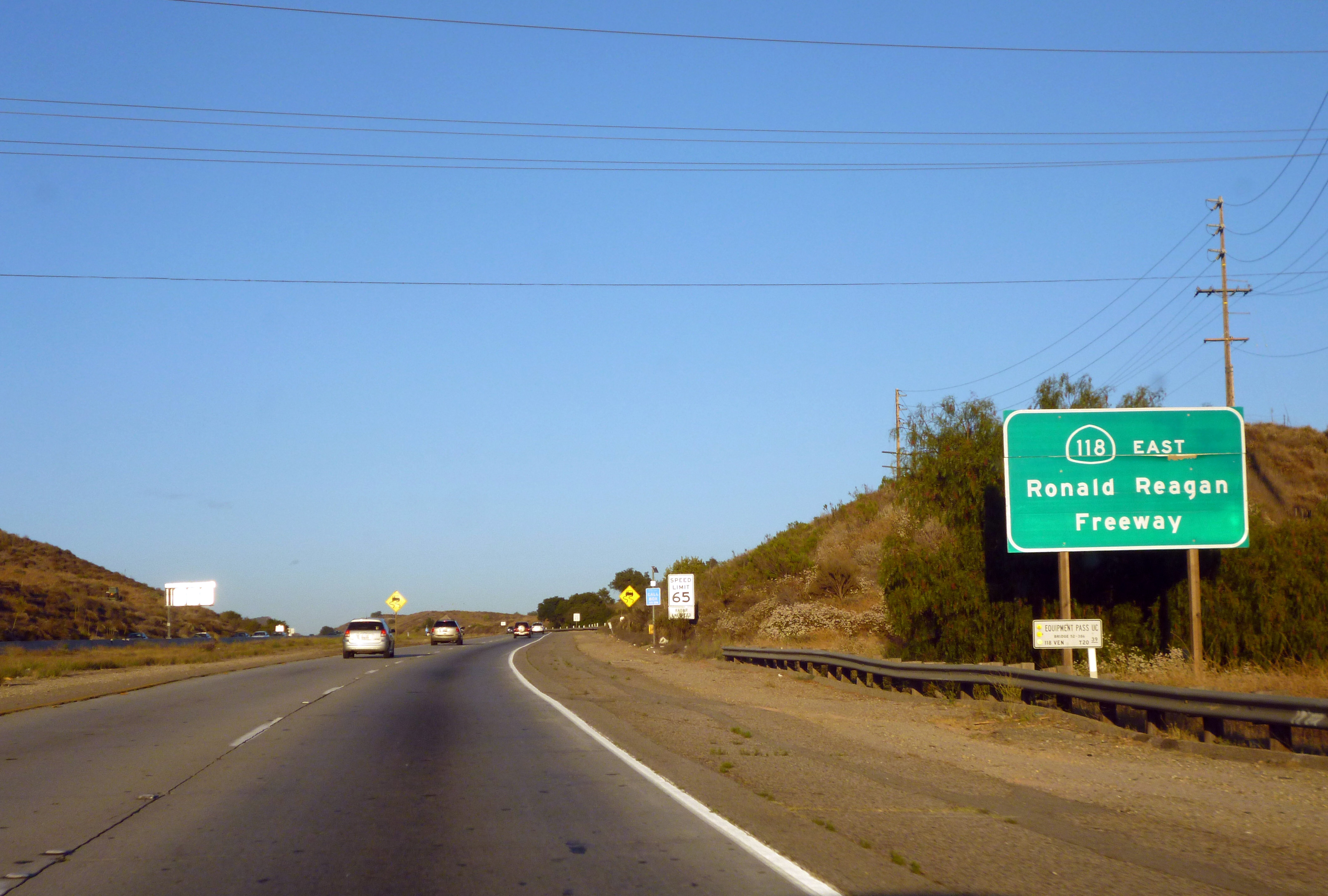 A sign indicating that California State Route 118 in Simi Valley, California is the Ronald Reagan Freeway. Photographed by user Coolcaesar on July 7, 2012.